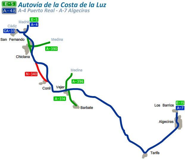 mapa A48